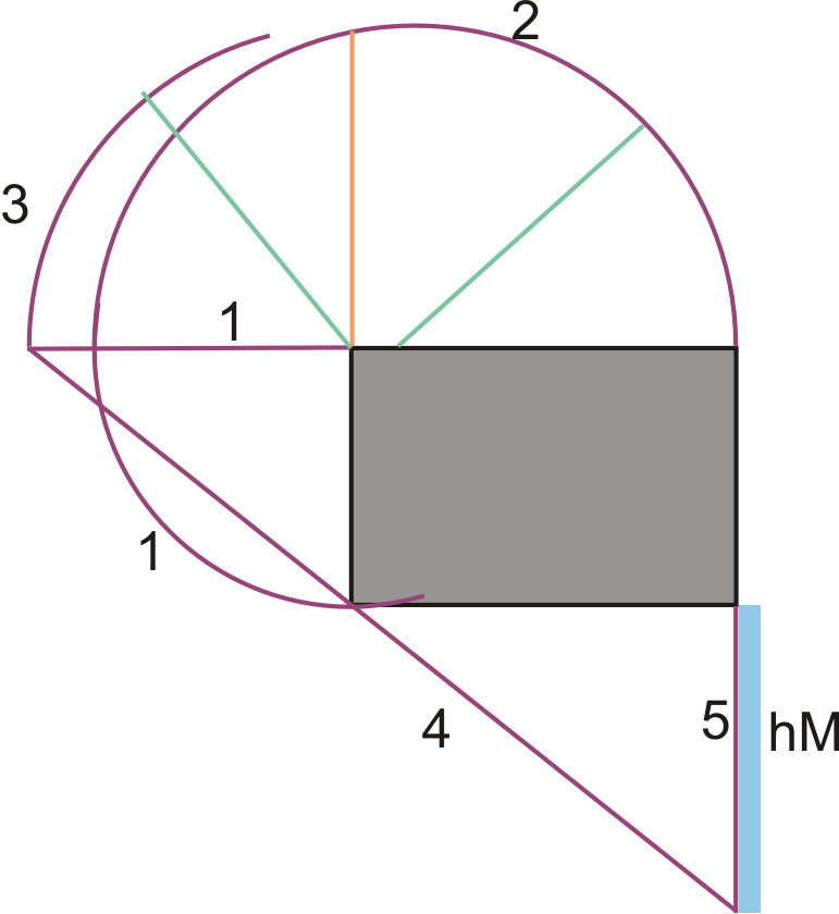 Drawing the harmonic mean (Palladio)